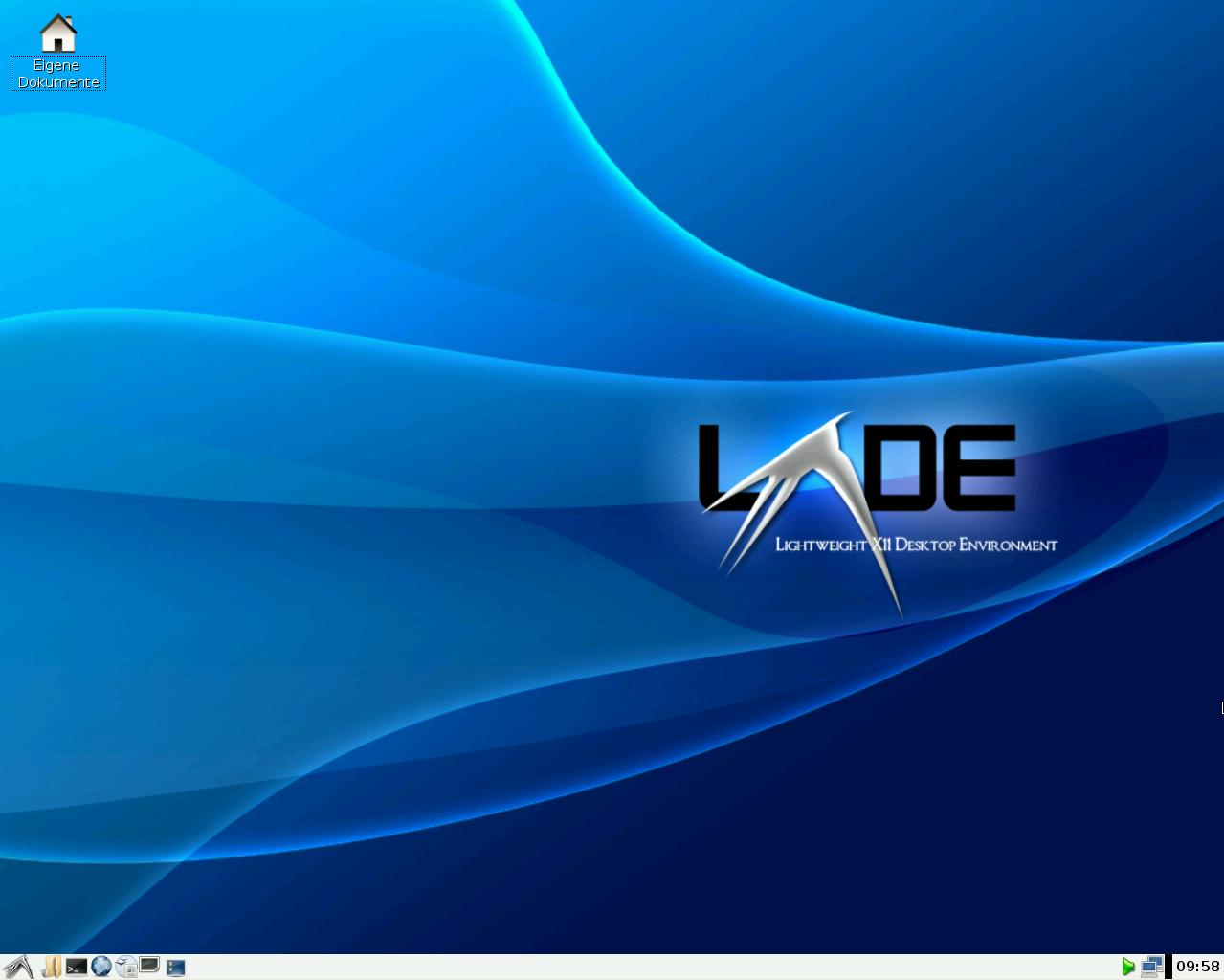 Knoppix 6 desktop